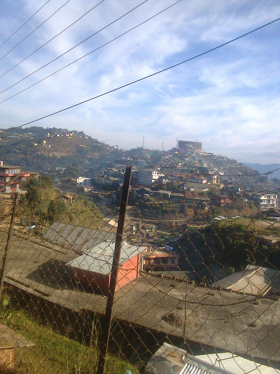 Zunheboto